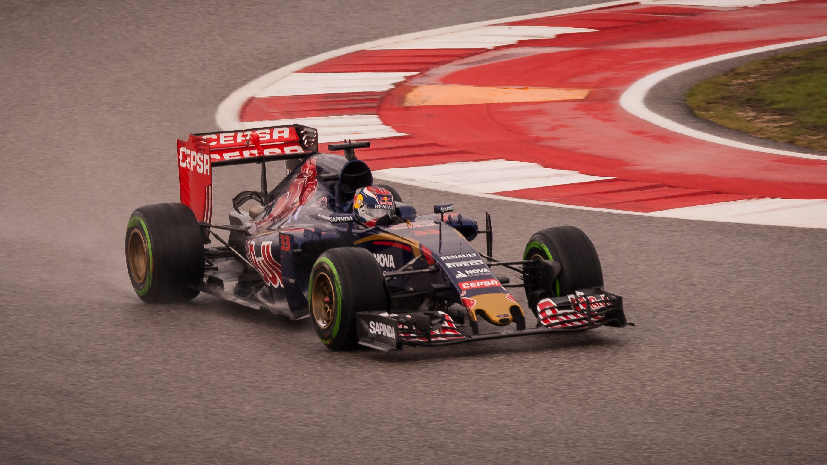 Max Verstappen at the 2015 United States Grand Prix